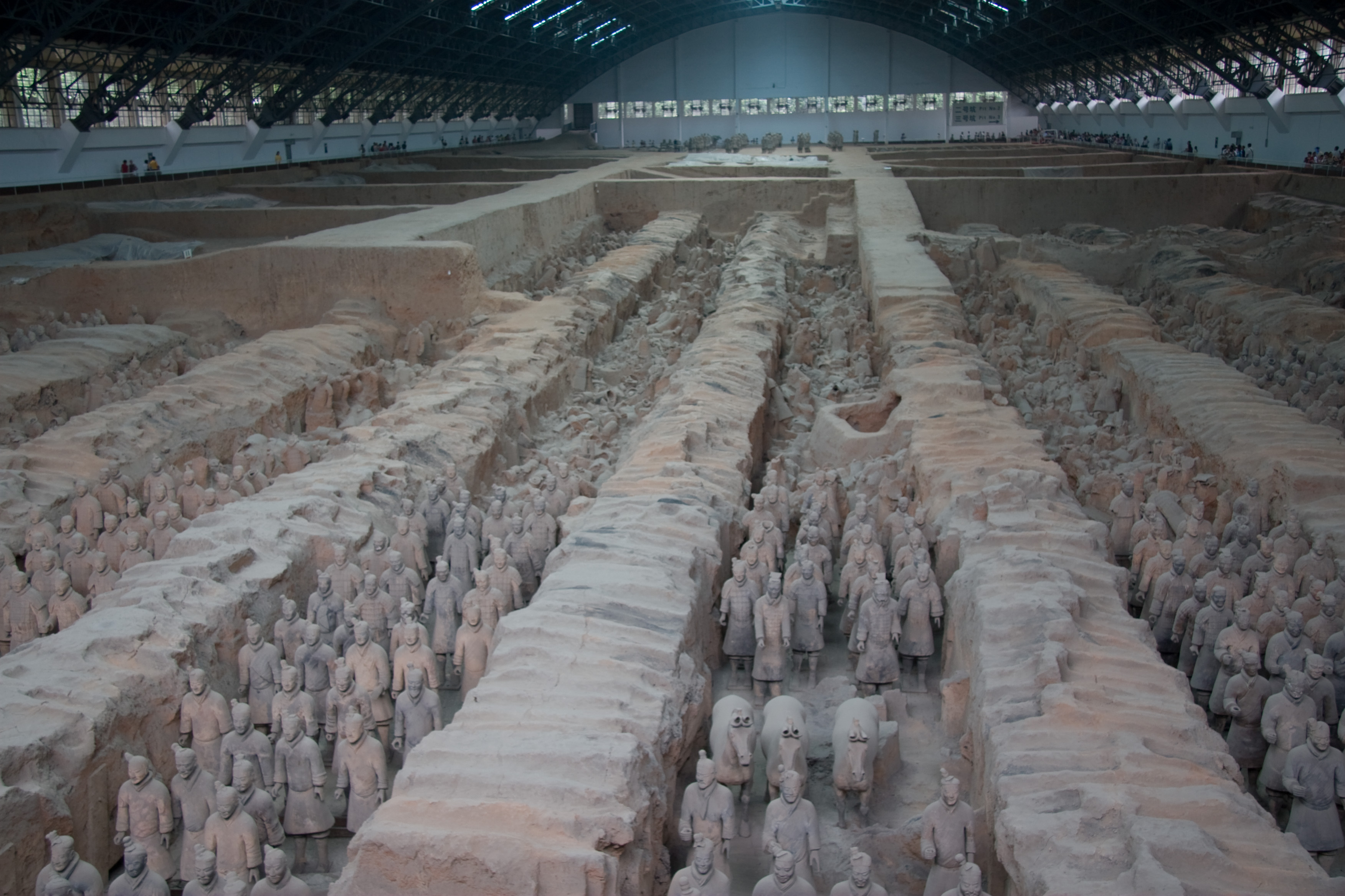 Terracotta Army Pit 1 - in Xi'an, China